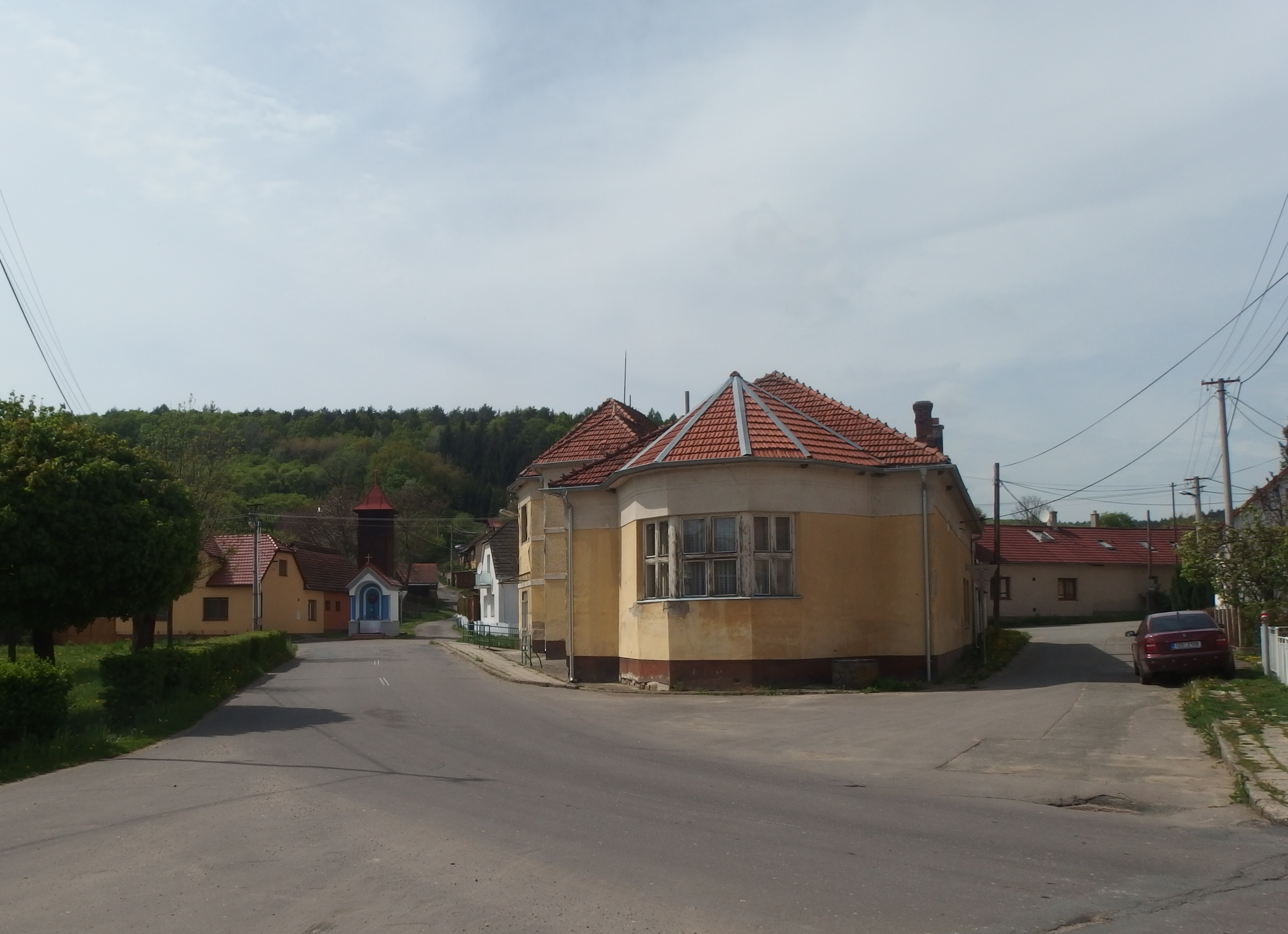 Bojkovice in Uherské Hradiště District, Czech Republic, part Přečkovice.